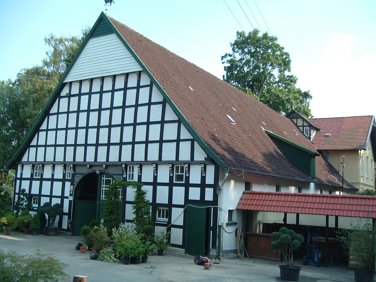 Farmhouse in town of Enger, District of Herford, North Rhine-Westphalia, Germany.This is a photograph of an architectural monument.